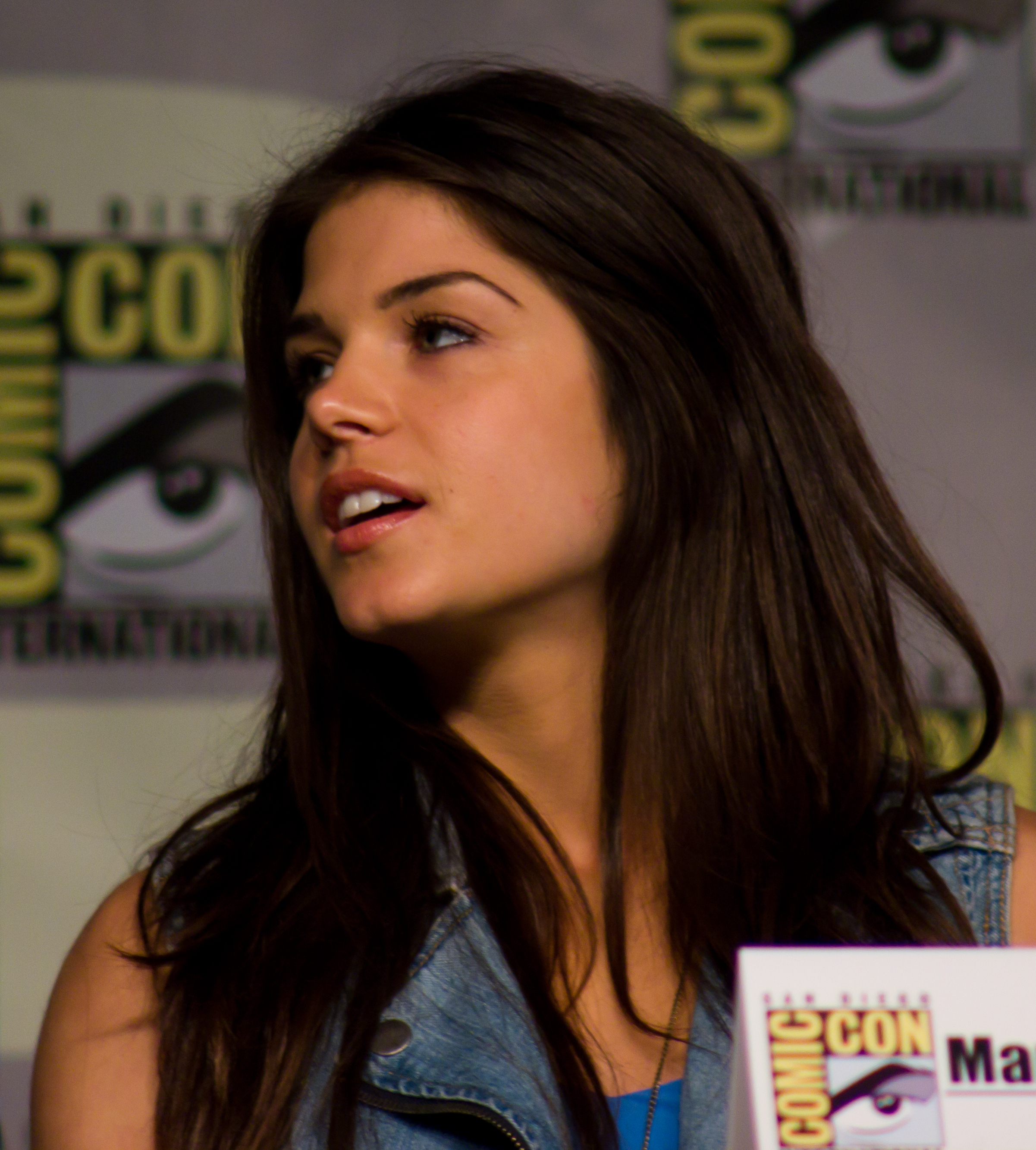 Marie Avgeropolous on the "The 100" panel at the 2013 Comic-Con.